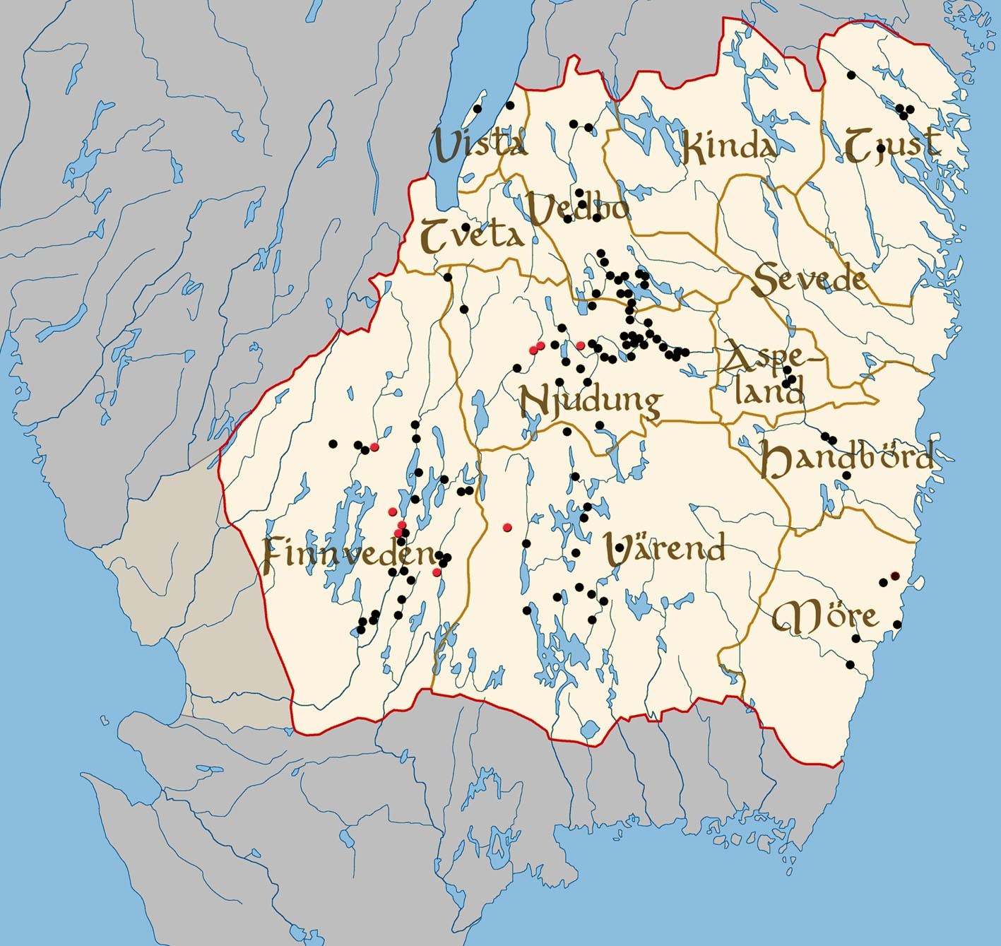 Map of the old vikinglandscape Småland in Sweden.